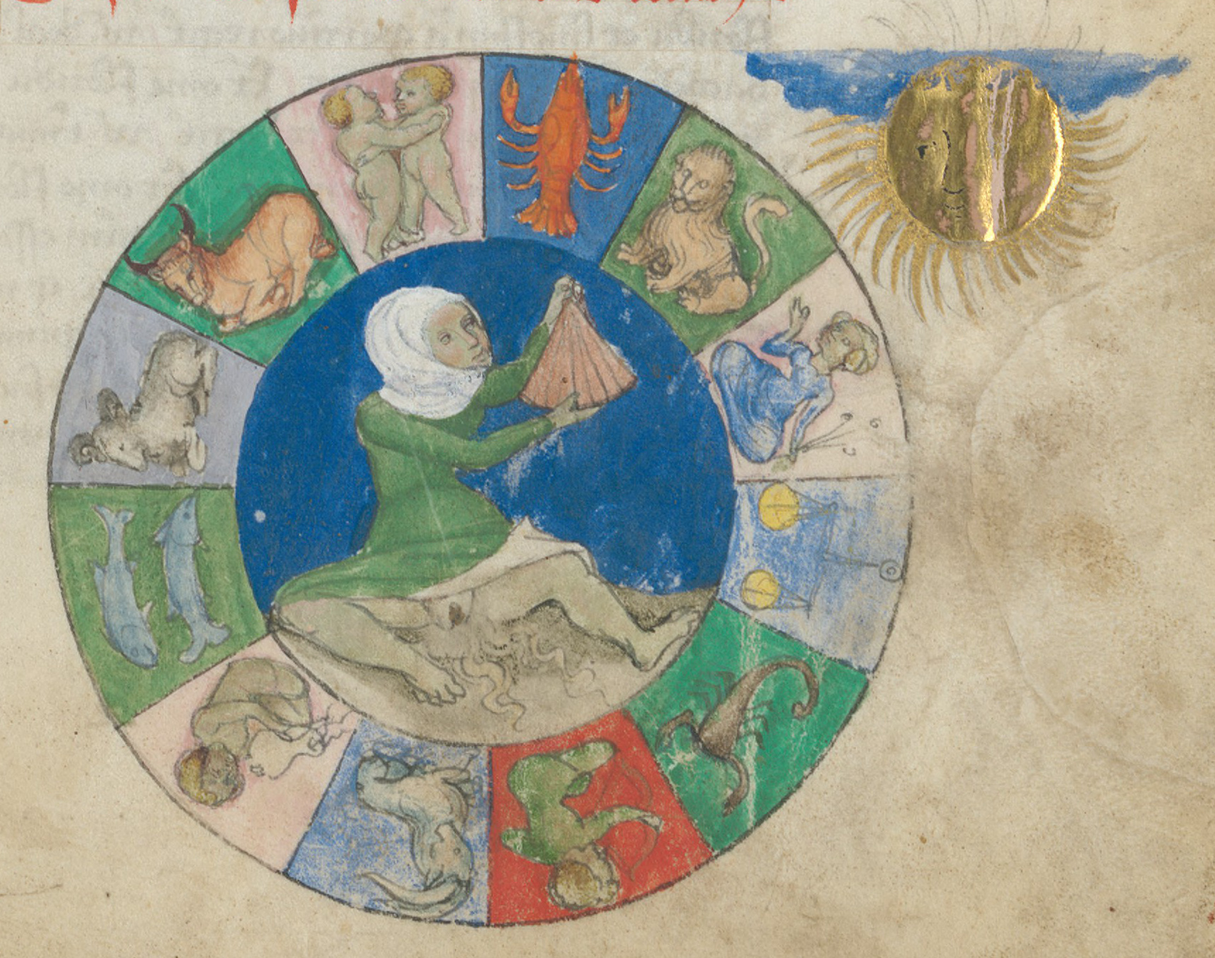 Aurora Consurgens medieval manuscript, exemplar from Zürich Zentralbibliothek, Ms. Rh. 172 Parchemin, 100 ff., 20.4 x 13.9 cm, Saint Gall, XVe siècle, latin 10.5076/e-codices-zbz-Ms-Rh-0172 Downloaded from the above site, cropped by GAllegre folio 11 recto - 23